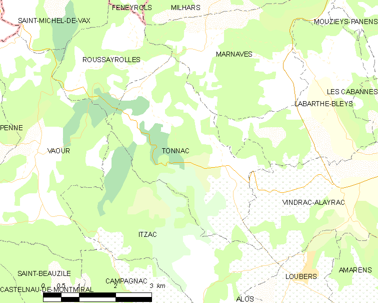 Map of French municipality Tonnac